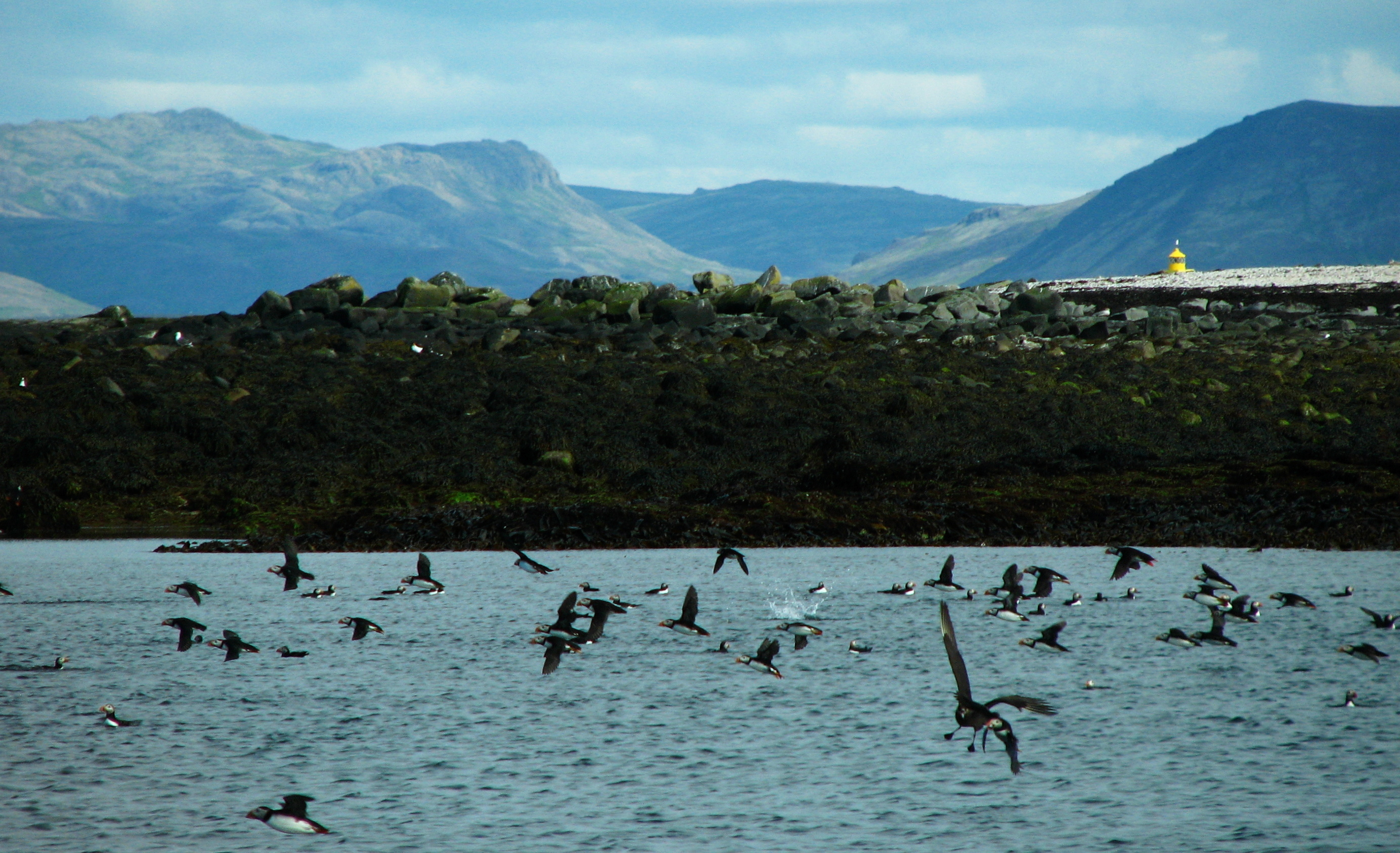 Höfuðborgarsvæðið, Puffin Island, puffins, road trip, 2008-08 -- Iceland 1st Anniversary Trip, chordata, animalia, fratercula, alcidae, charadriiformes, aves